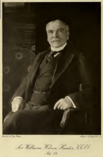 Sir William Wilson Hunter (1840-1900). Scottish historian and statistician, and a member of the Indian Civil Service, who later became Vice President of Royal Asiatic Society.